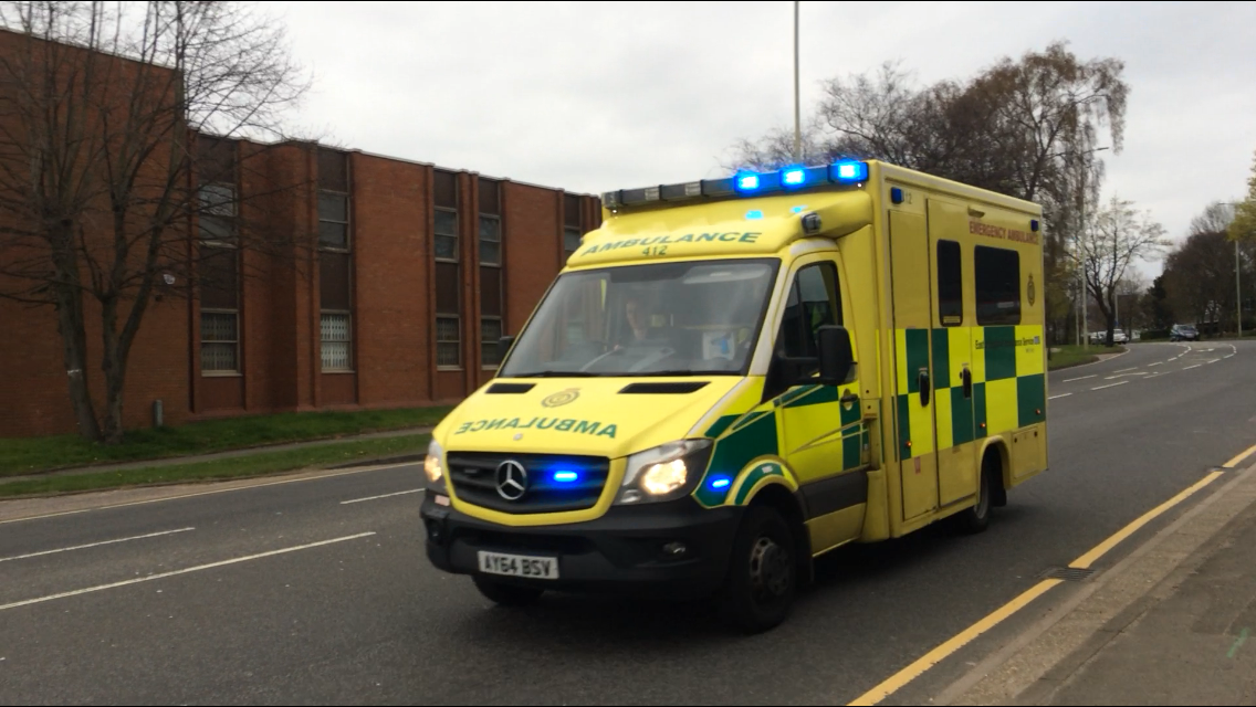 East of England Ambulance Service Emergency Ambulance Responding